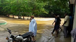 El Limón river floaded covering the bridge that connect East side of el limón with west side of it.